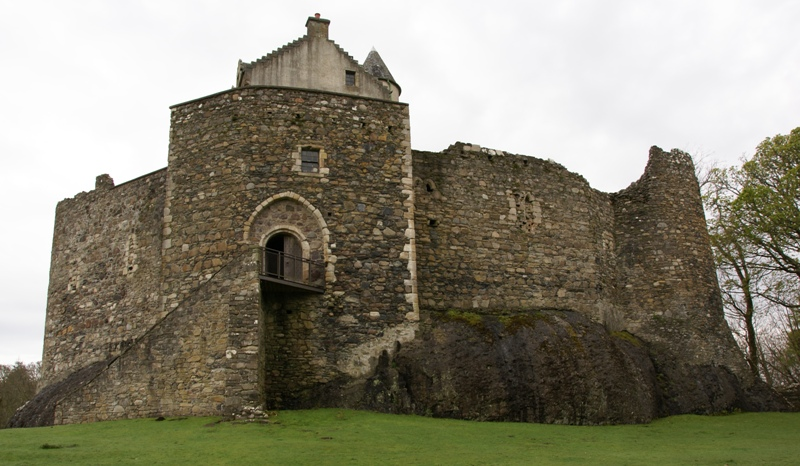 Dunstaffnage Castle, Argyll and Bute, Scotland